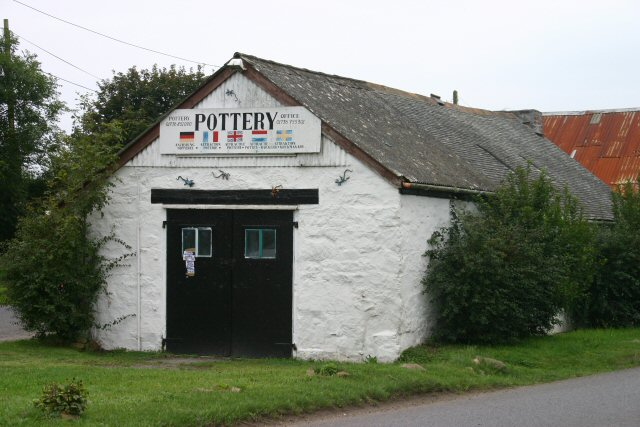 The Pottery - not like the one in Hollybush!! The Pottery in St Erth Praze. Can be found at the cross roads - watch out for the dog!